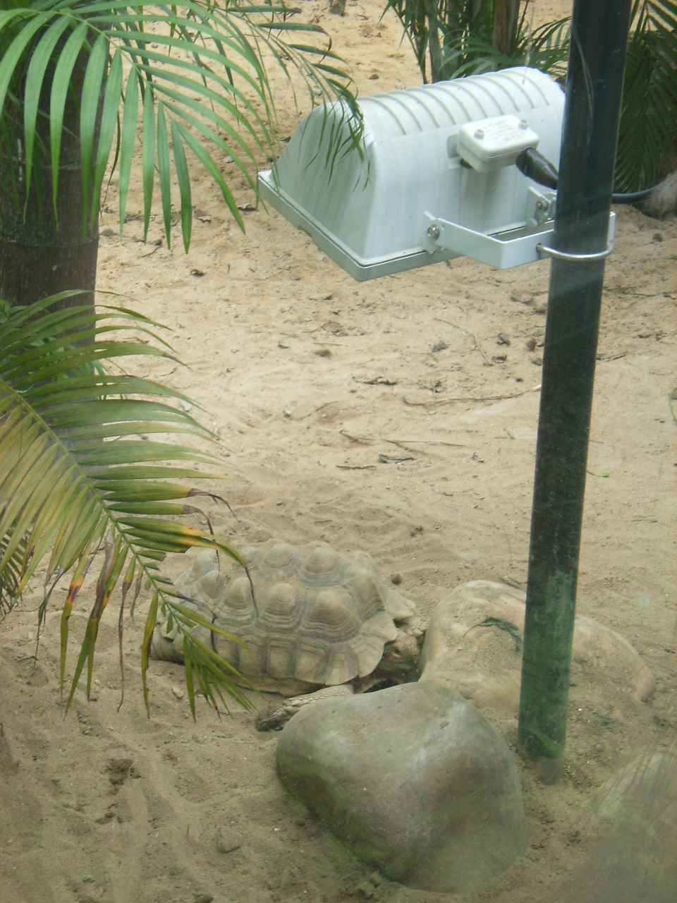 香港動植物公園 Hong Kong Zoological and Botanical Gardens NBG626